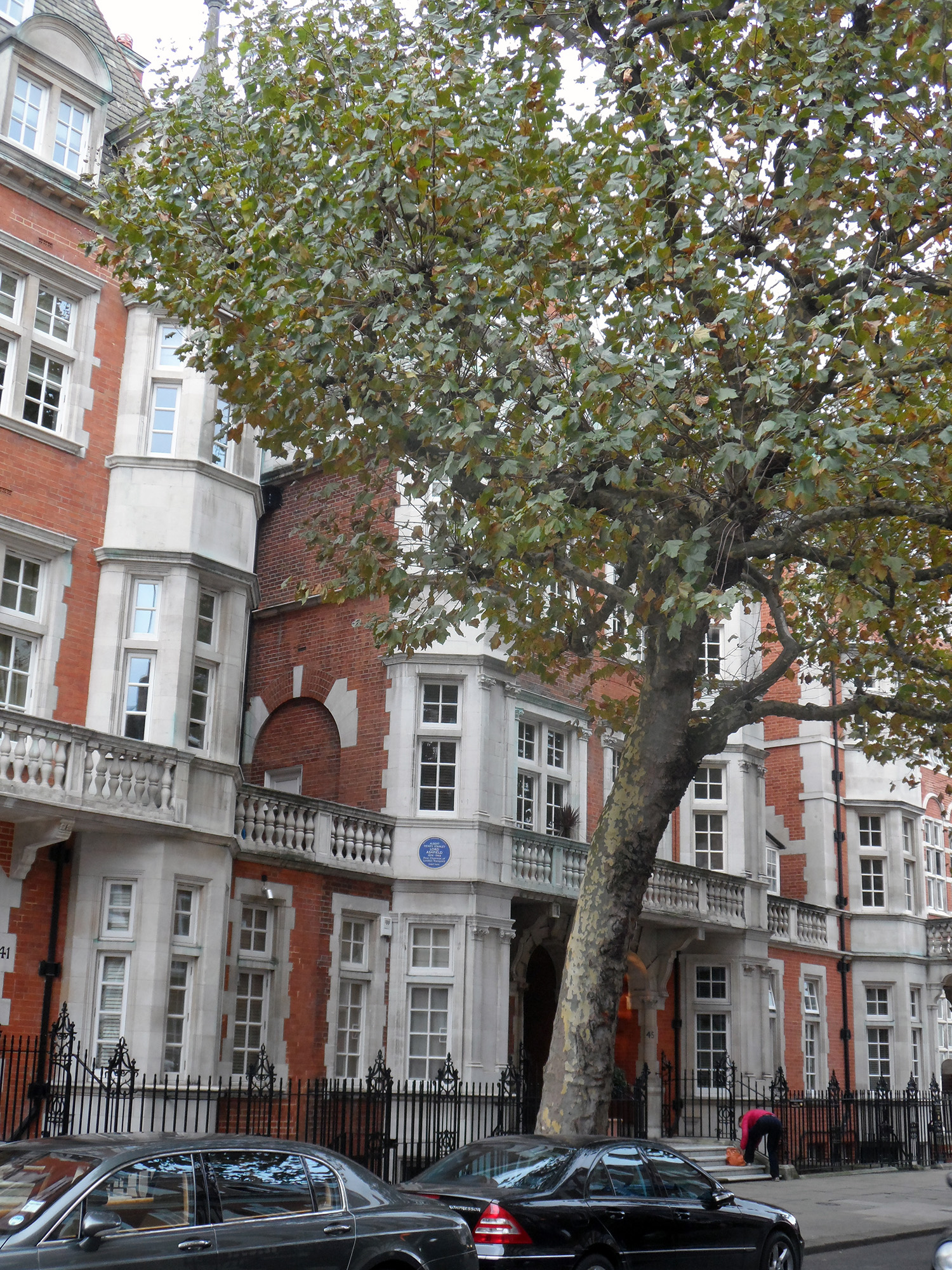 ALBERT HENRY STANLEY LORD ASHFIELD 1874-1948 First Chairman of London Transport lived here